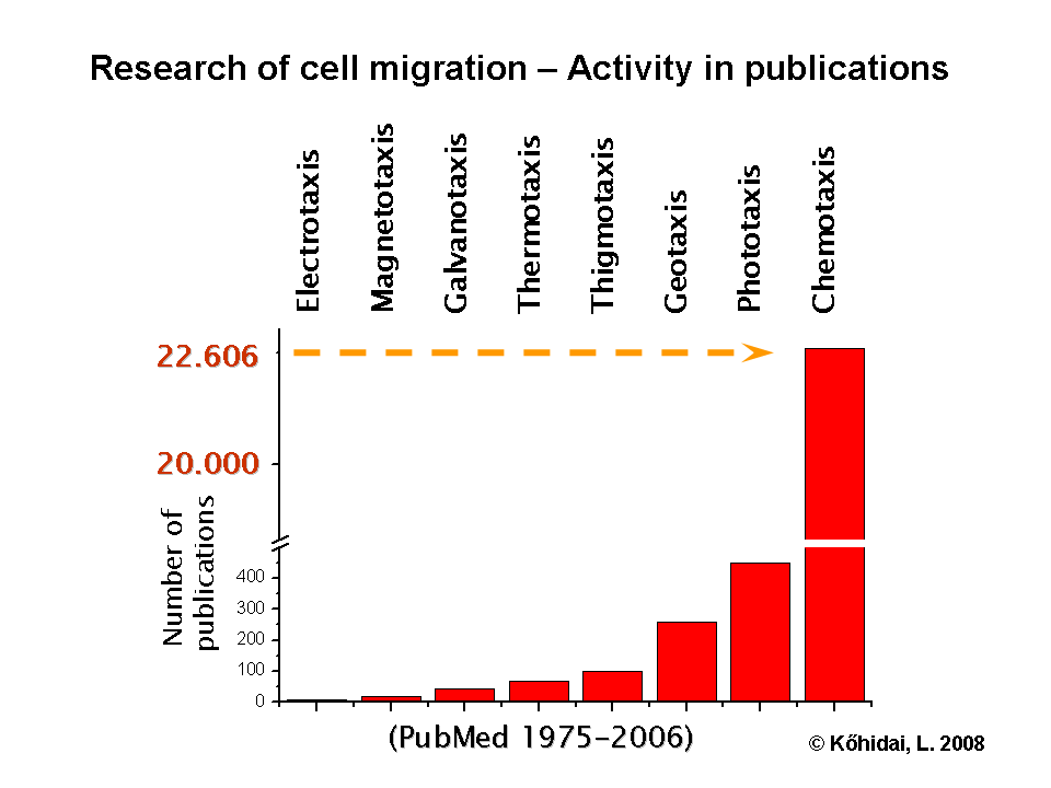 Publications in Chemotaxis Research